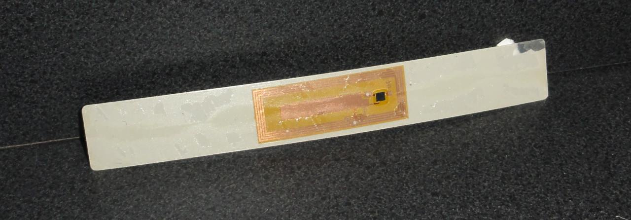 View of memory chip inside a Sony SmartFile electronic label.